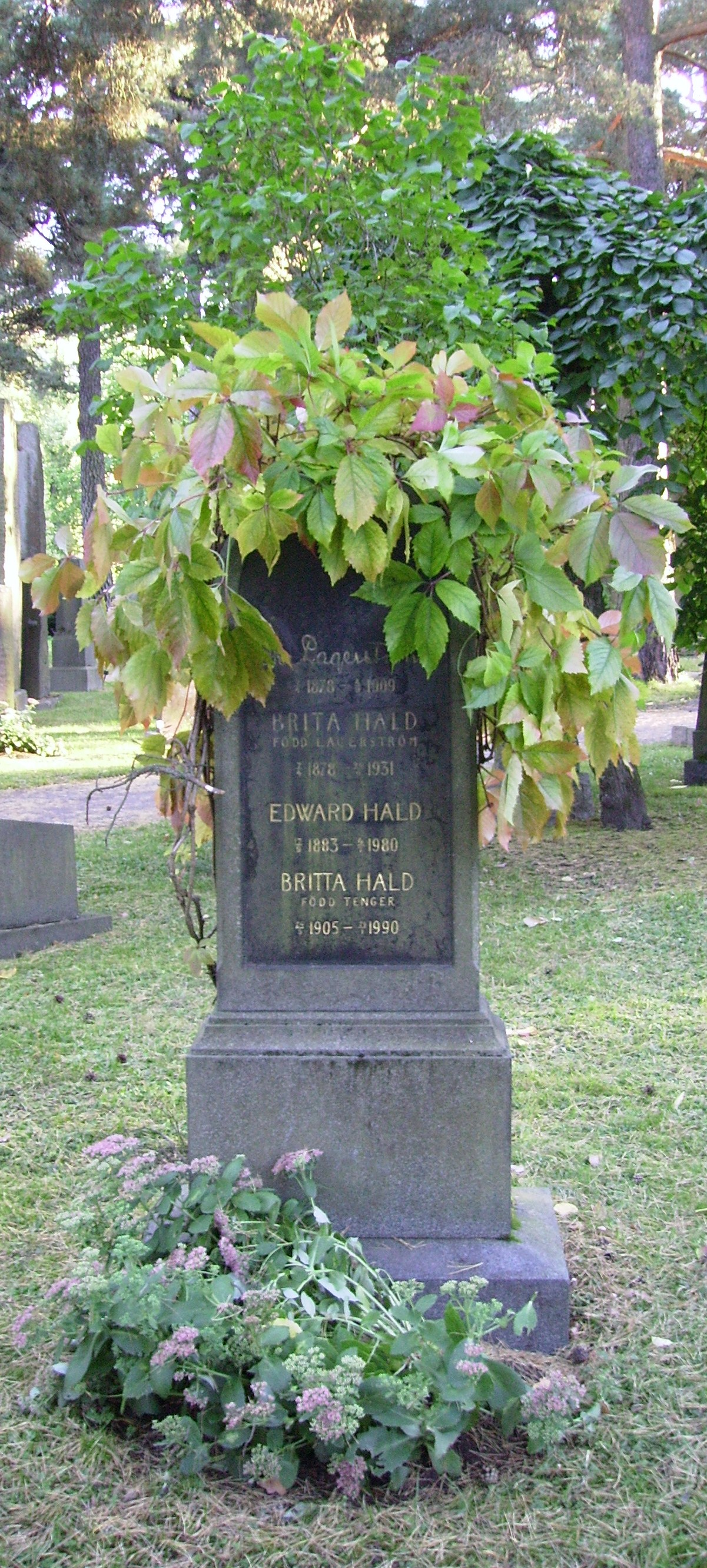 Picture of Edward Hald's grave at Norra begravningsplatsen in Solna